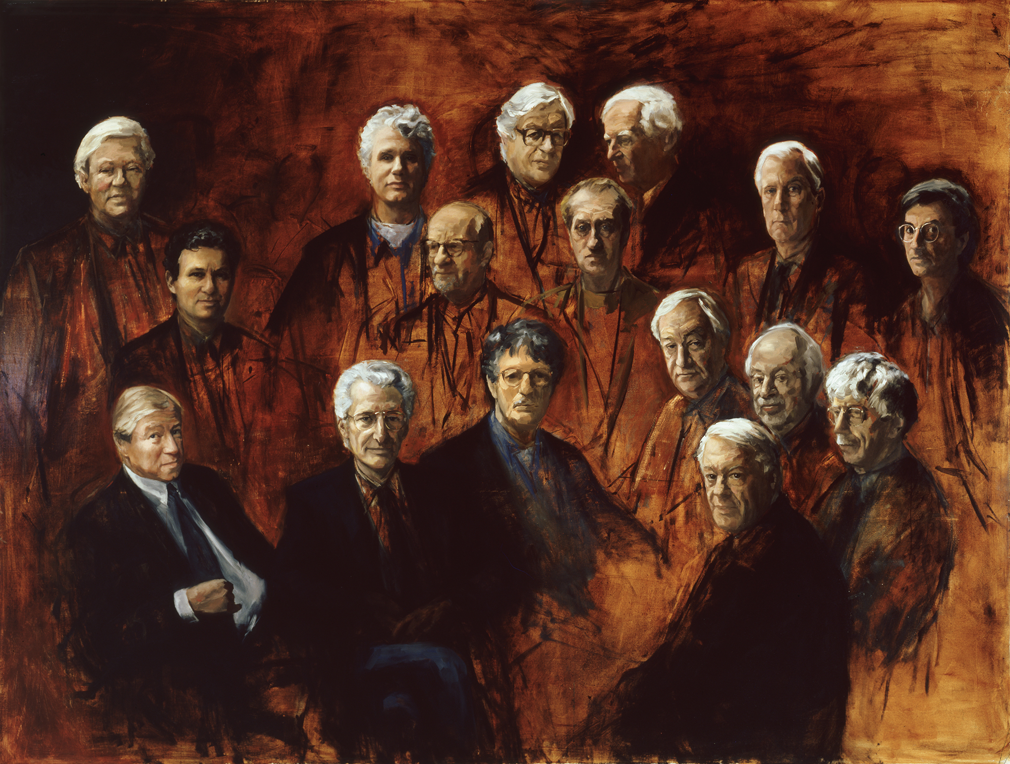 Depicted: (back row): Jan Posch, Adriaan van Dis, W.L. Brugsma, André Spoor, G.L. van Lennep, Jeroen Henneman; middle: Julius Roos, Coen Stork, Gerrit Komrij, Cees Nooteboom, Henk Hofland, Reinbert de Leeuw; front row: Marcel van Dam, Harry Mulisch, Martin Veltman and Hans van Mierlo.